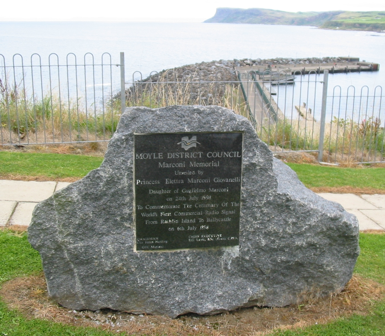 Memorial commemorating radio broadcast experiments carried out by Guglielmo Marconi at Ballycastle, County Antrim.